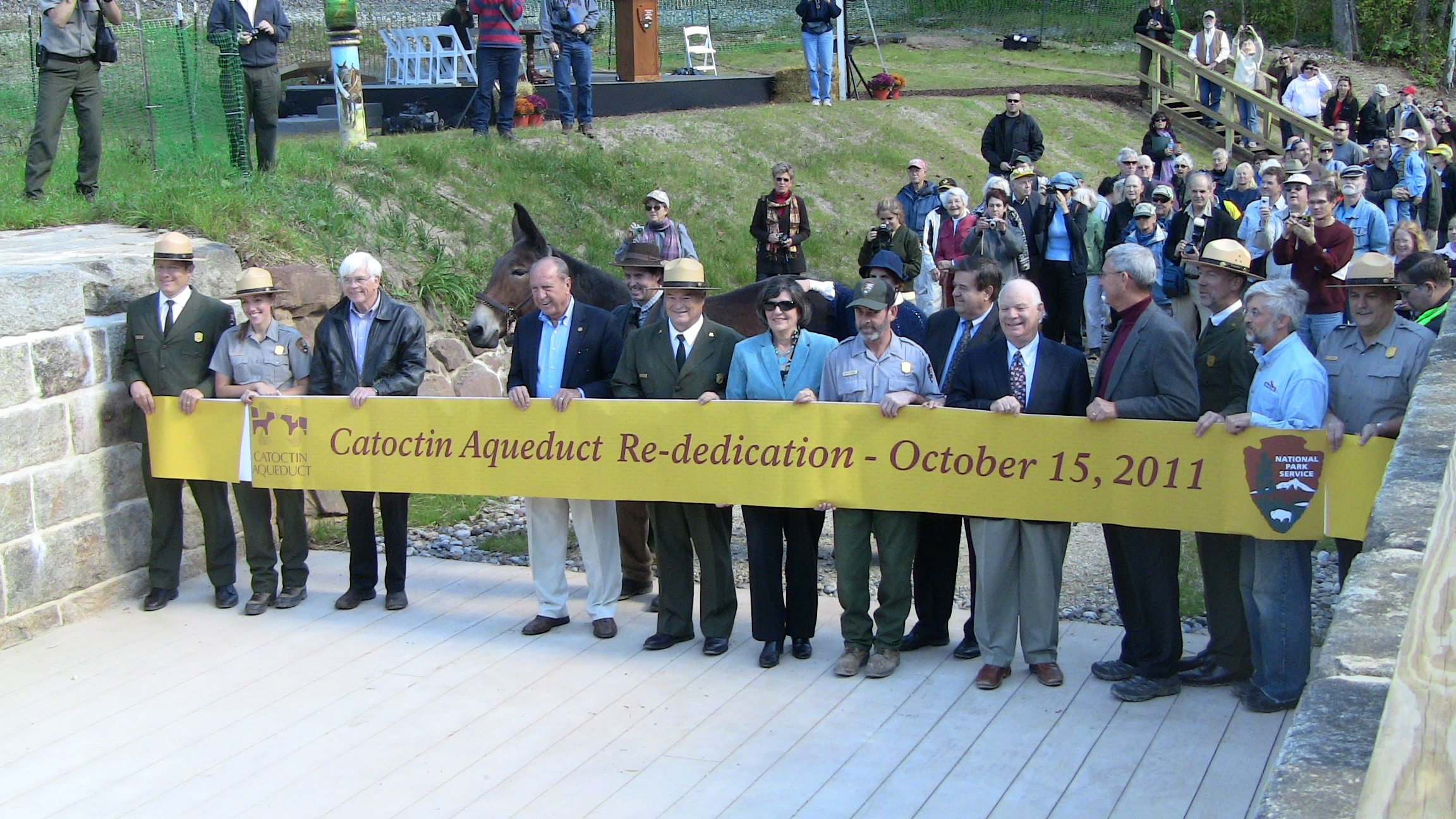 Rededication ceremony of Catoctin Aqueduct (NPS function) on Chesapeake and Ohio Canal.